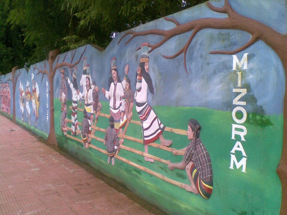 Dance of Mizoram